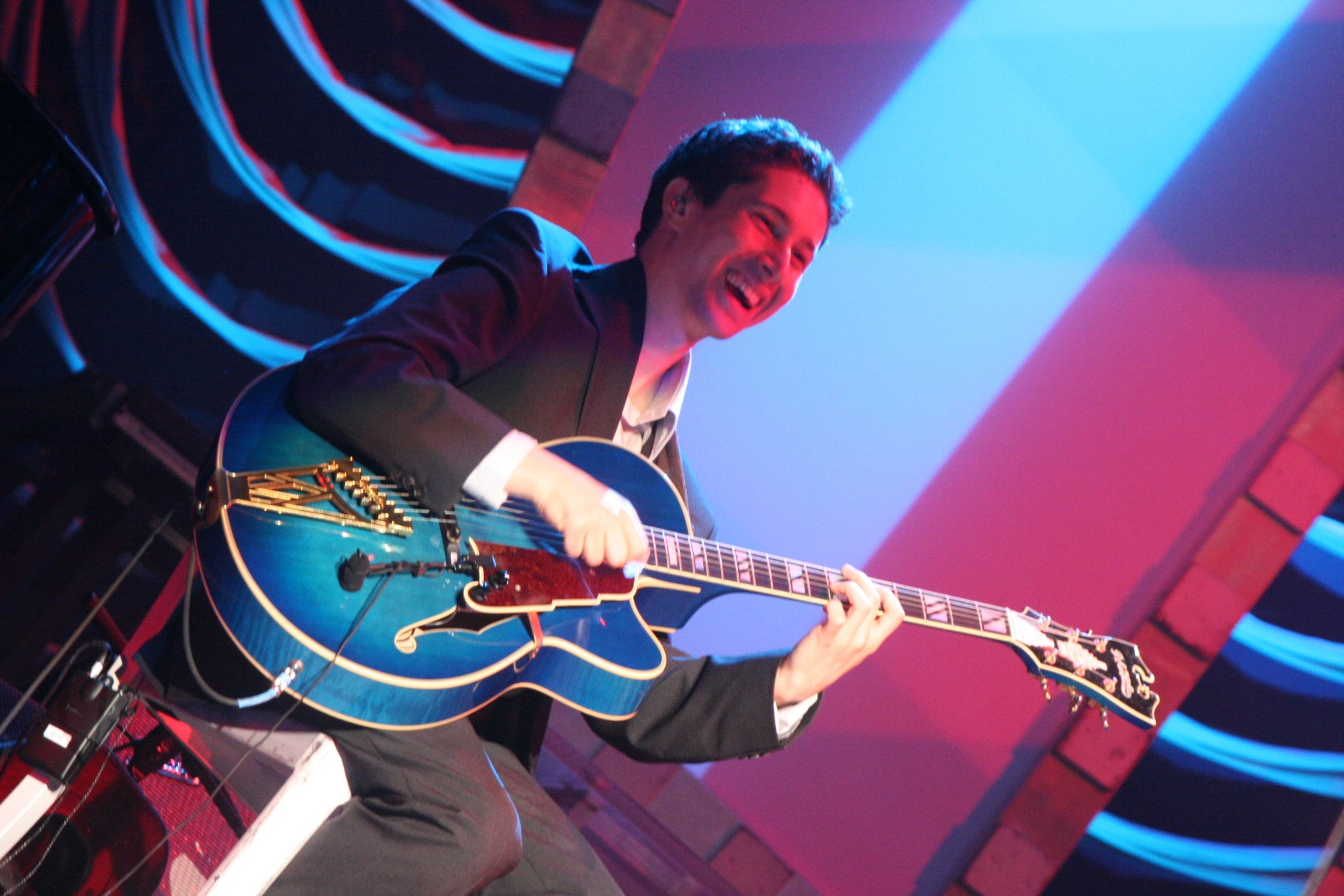 Randy Napoleon guitar: D'Angelico [1]